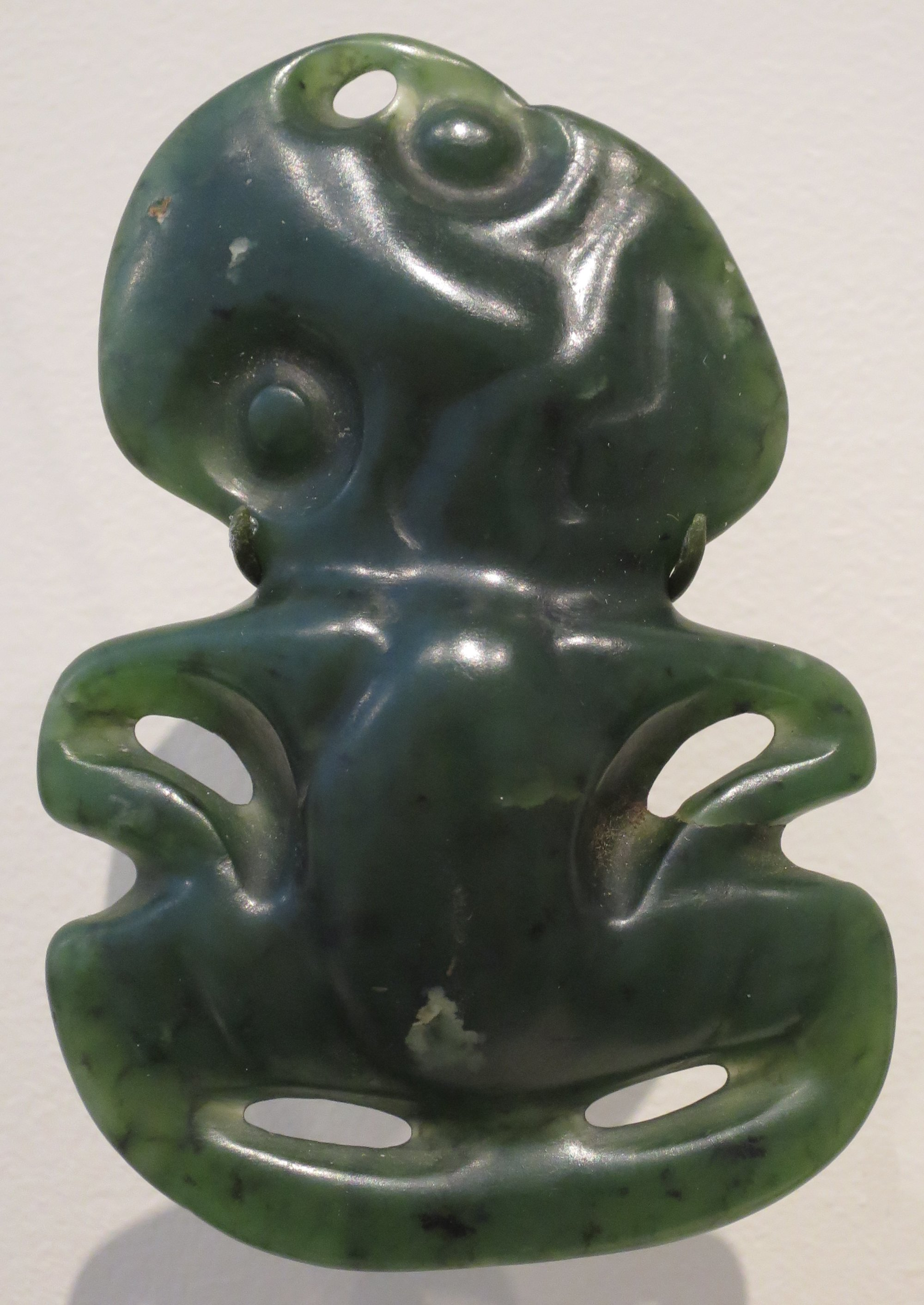 Amulet (hei tiki), Maori people, New Zealand, 19th century, carved greenstone, Honolulu Museum of Art, accession 3348